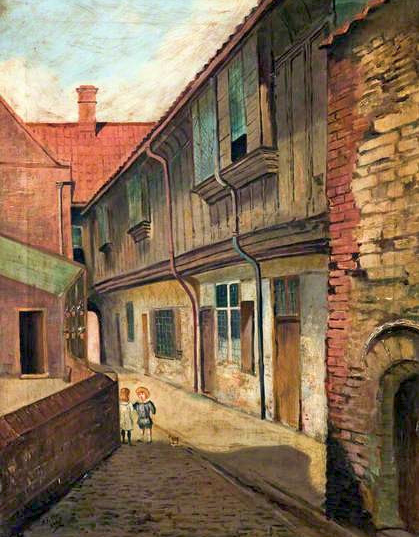 The Whitefriars or Akrill's Passage Lincoln c 18800